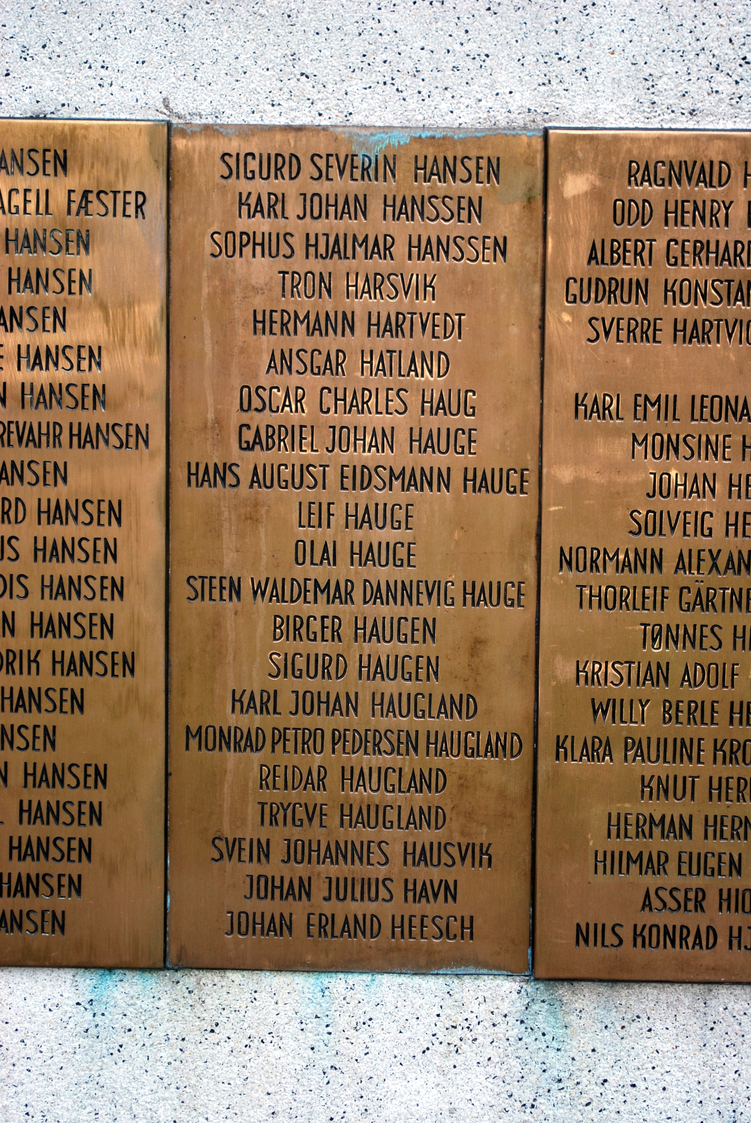 Solheim Æreskirkegård, Bergen. War graves and memorial devoted to people from Bergen who fell in the Second World War.